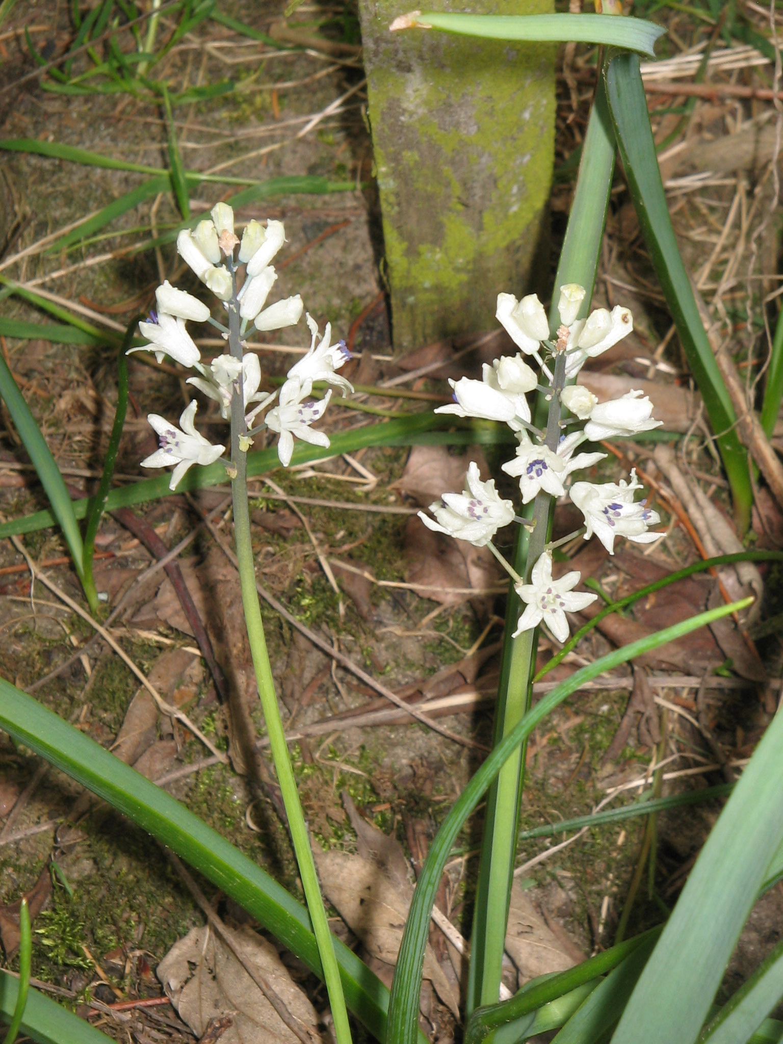 Bellevalia romana close-up